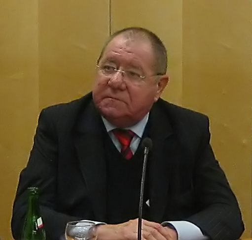 Germany, Bonn: the german economist, manager and journalist Wolfgang Roth during a discussion at the headquarters of the Friedrich-Ebert-Stiftung.